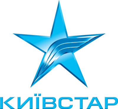 Logo of ukrainian telecommunications provider Kyivstar